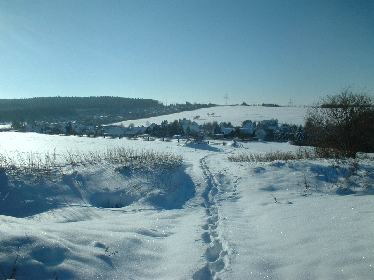 Oelsa seen from Lerchenberg